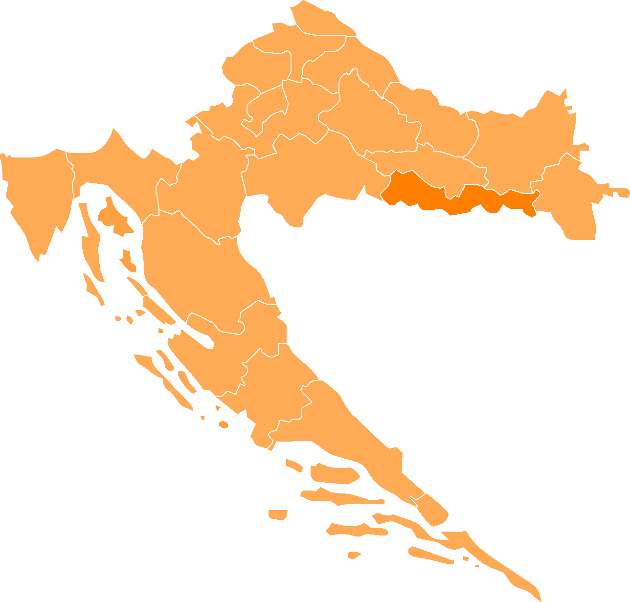 Map of Brod-Posavina County of Croatia